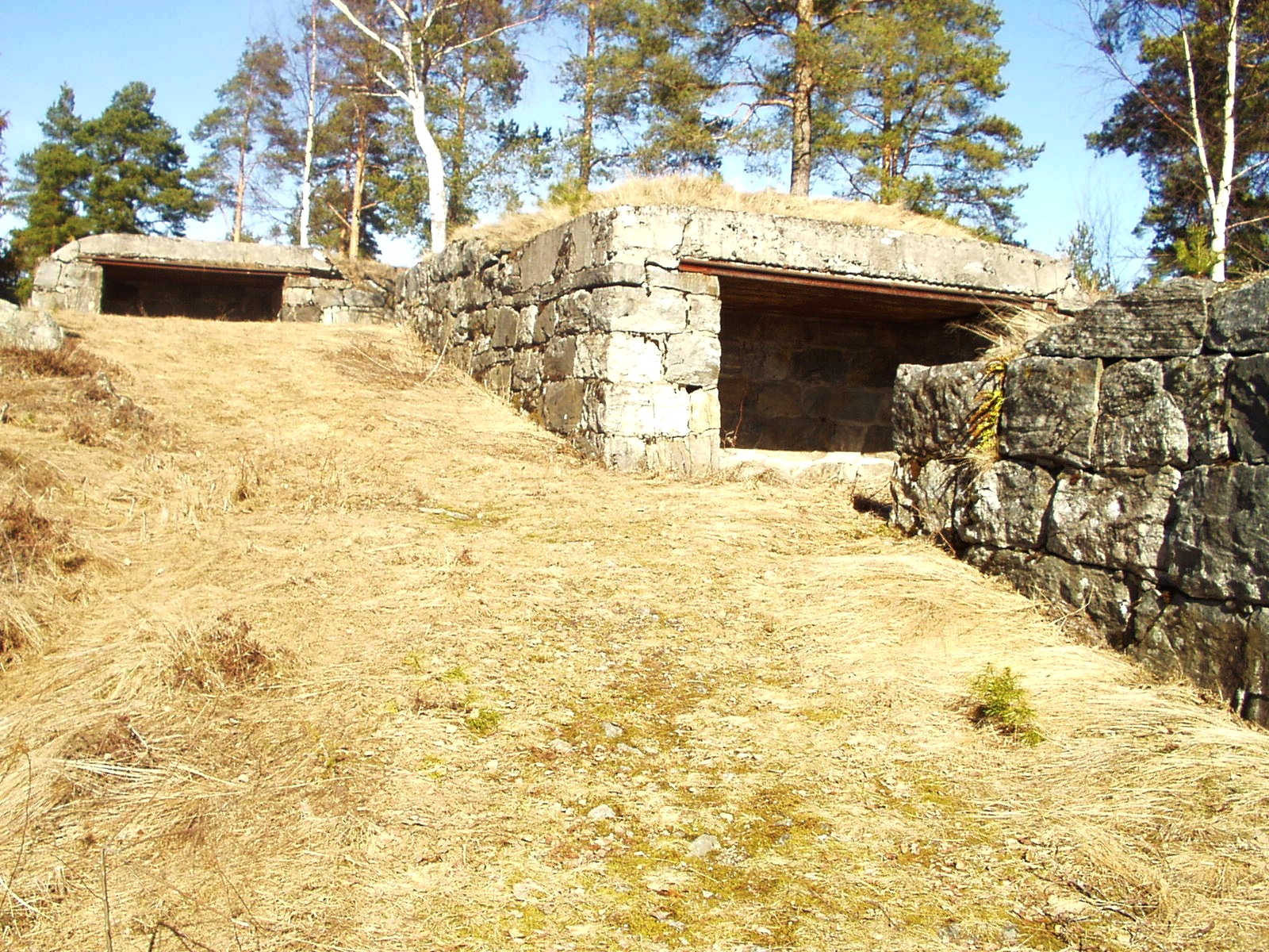 Gun positions at Staås battery